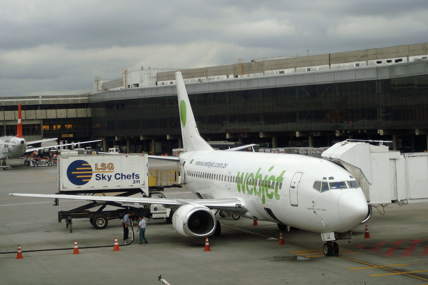 Brazilian Webjet Boeing 737-300 at Guarulhos International Airport, Sao Paulo